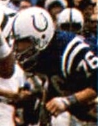 Baltimore Colts' defensive tackle Fred Miller pictured in a defensive play against the New York Jets during Super Bowl III.